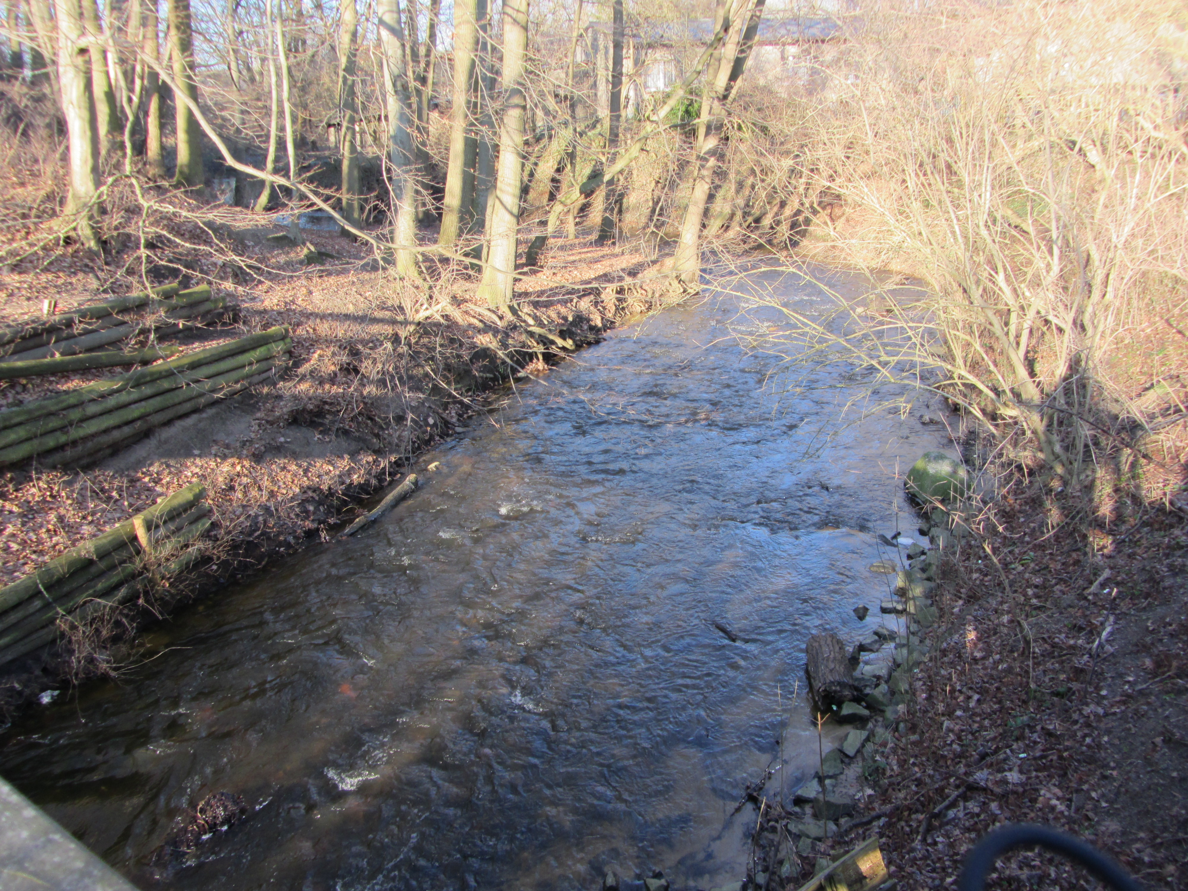 Panzower Bach at hill fort in Neubukow, district Rostock, Mecklenburg-Vorpommern, Germany